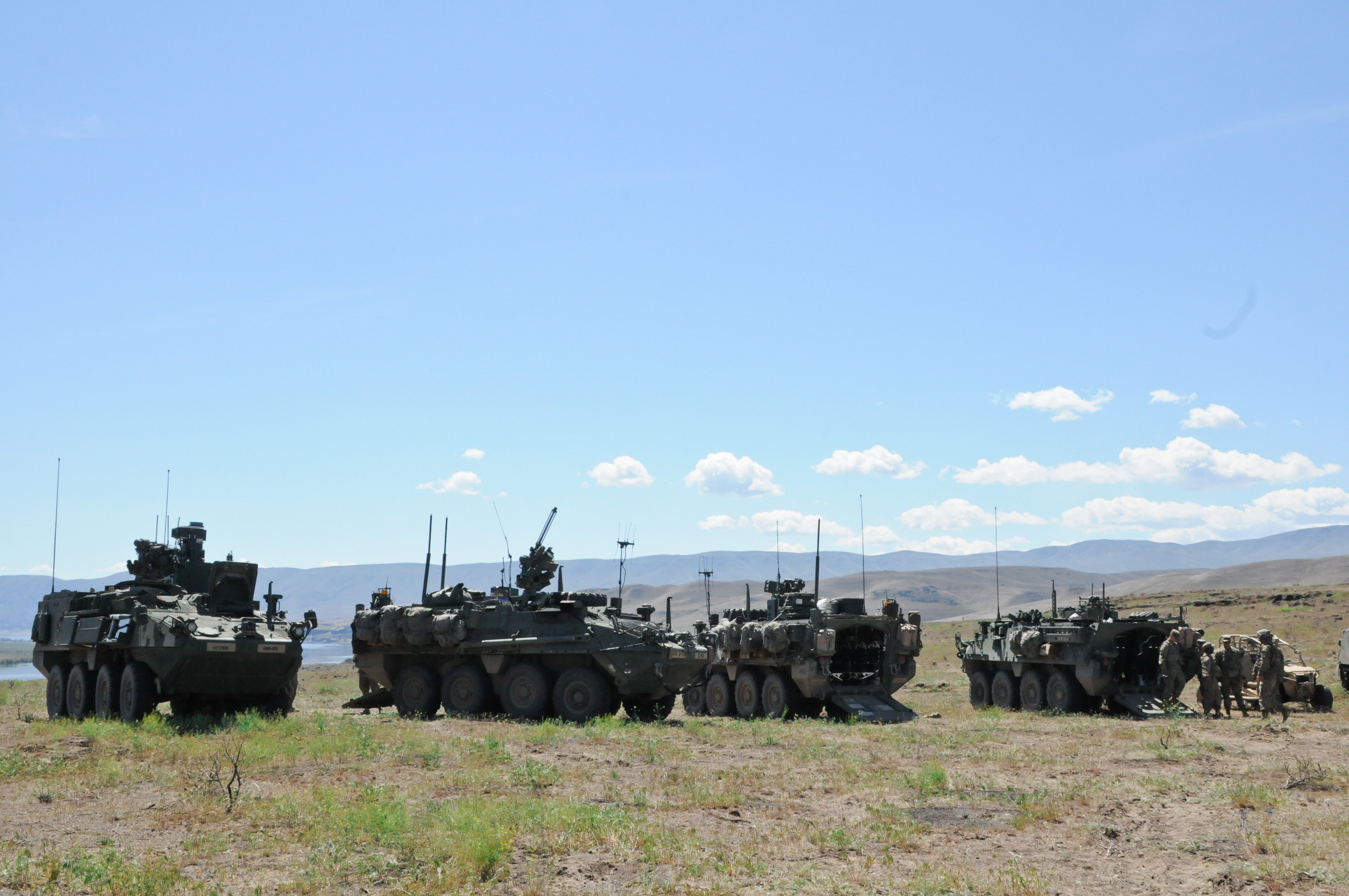 Photo in the field (Photo by PFC Valentina Montano)